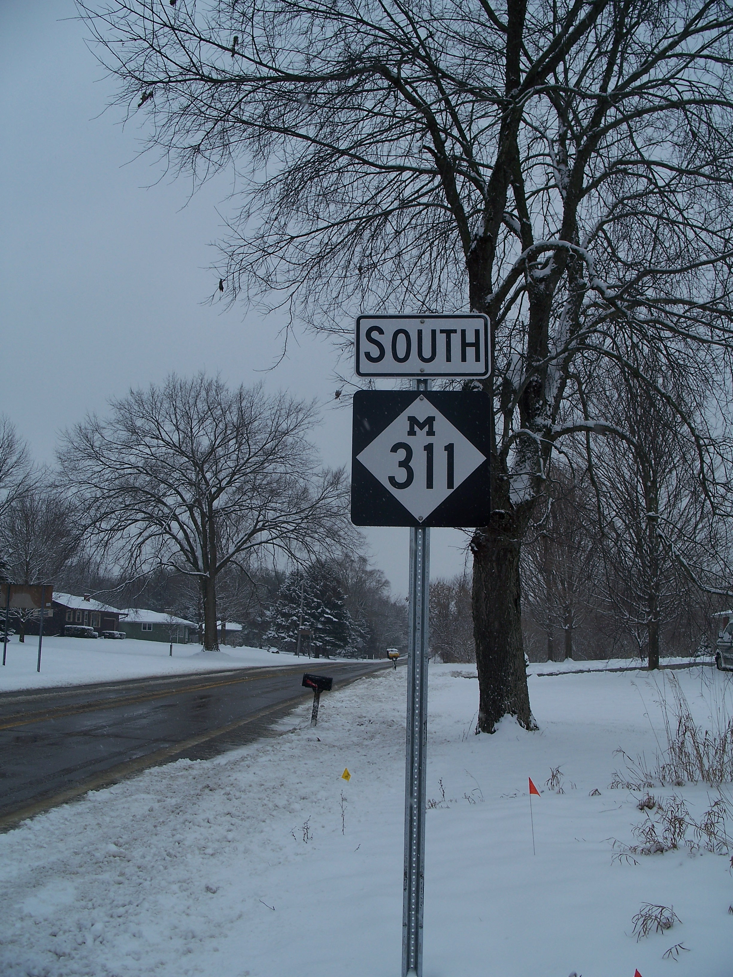 Well, it's existed since 1998, but this is the first time shields started popping up. This reassurance marker lies just south of B Drive North.